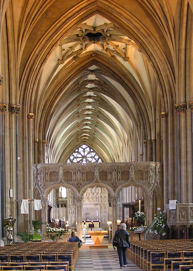 Bristol Cathedral UK, the chancel, showing lierne vaulting